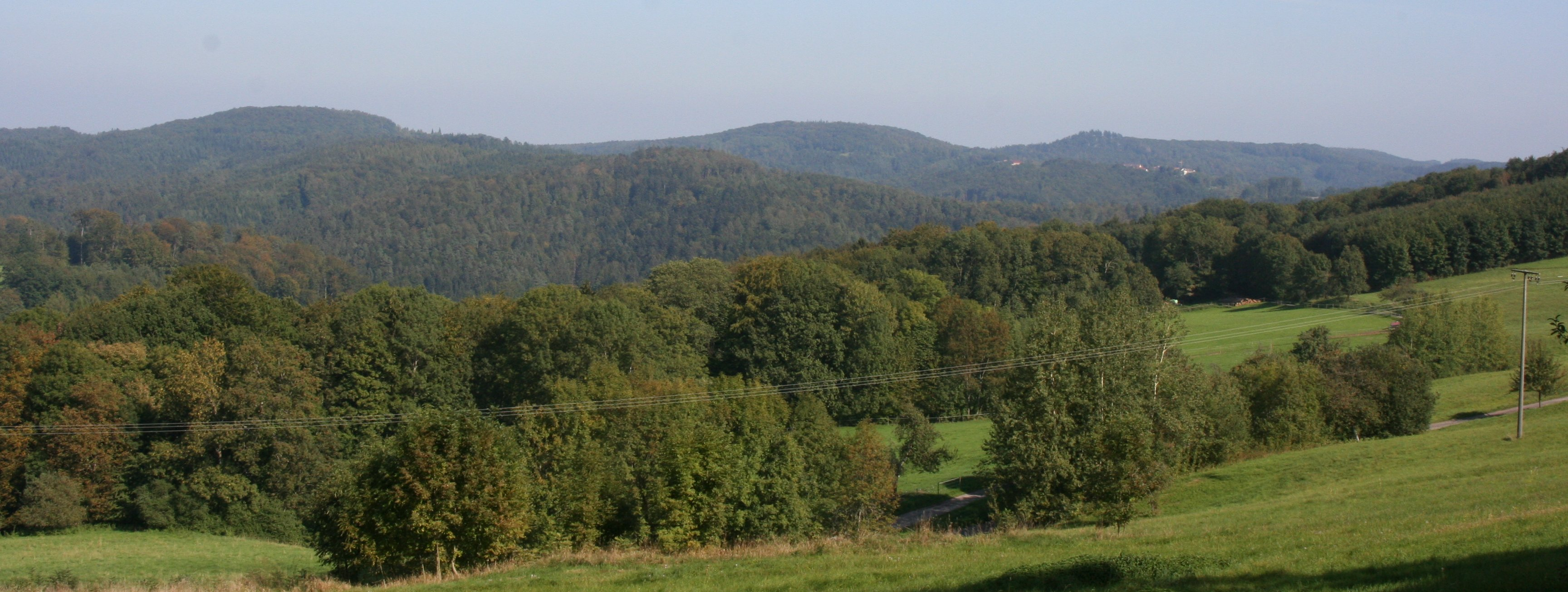 The Löwenstein mountains as seen from the Stocksberg